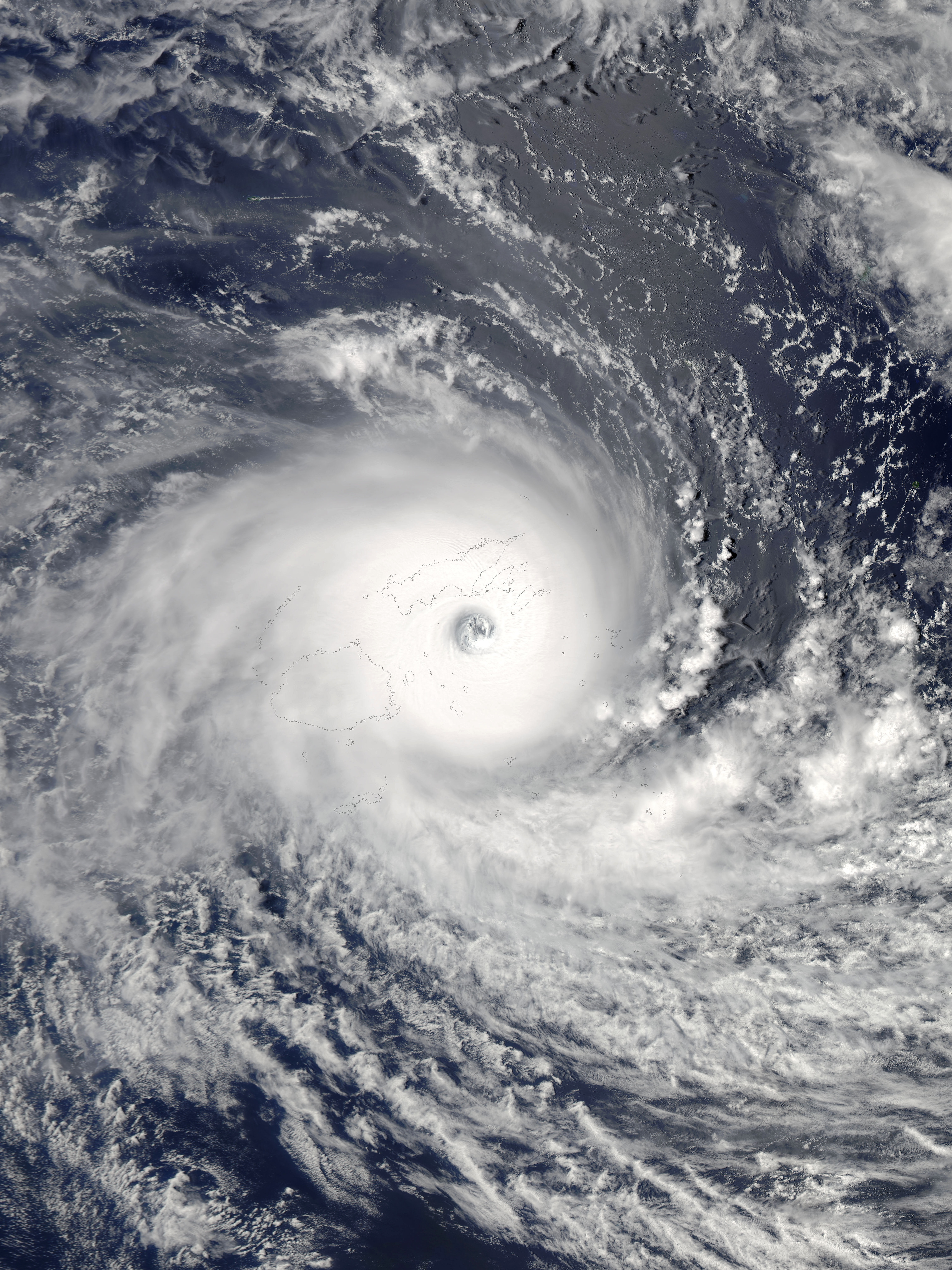 The Aqua satellite captured this picture of Severe Tropical Cyclone Winston at 01:30 UTC on 20 February 2016, during peak intensity and striking Fiji. Winston becomes the strongest storm to make landfall over Fiji in history.